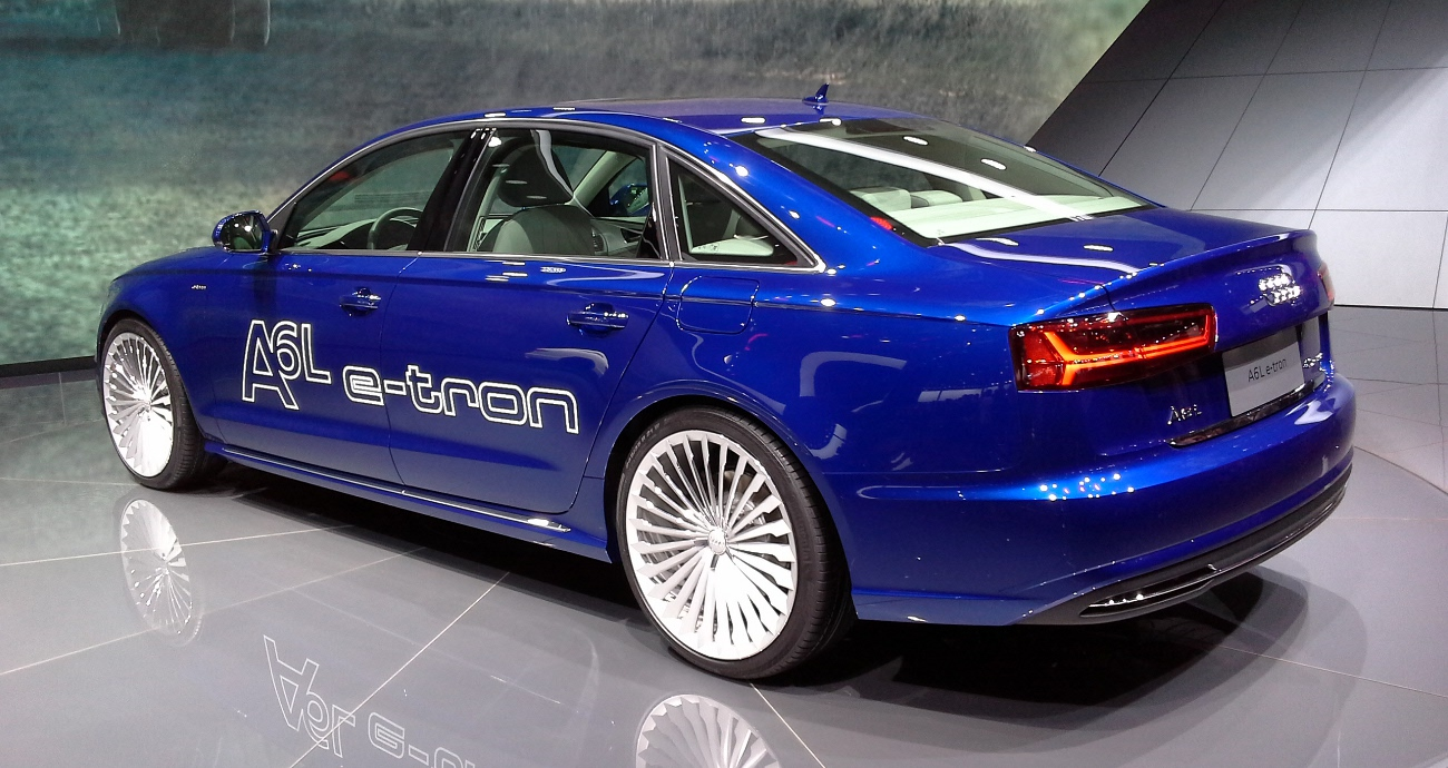 Audi A6L C7 e-tron photographed at the Auto Shanghai 2015, Shanghai, China.